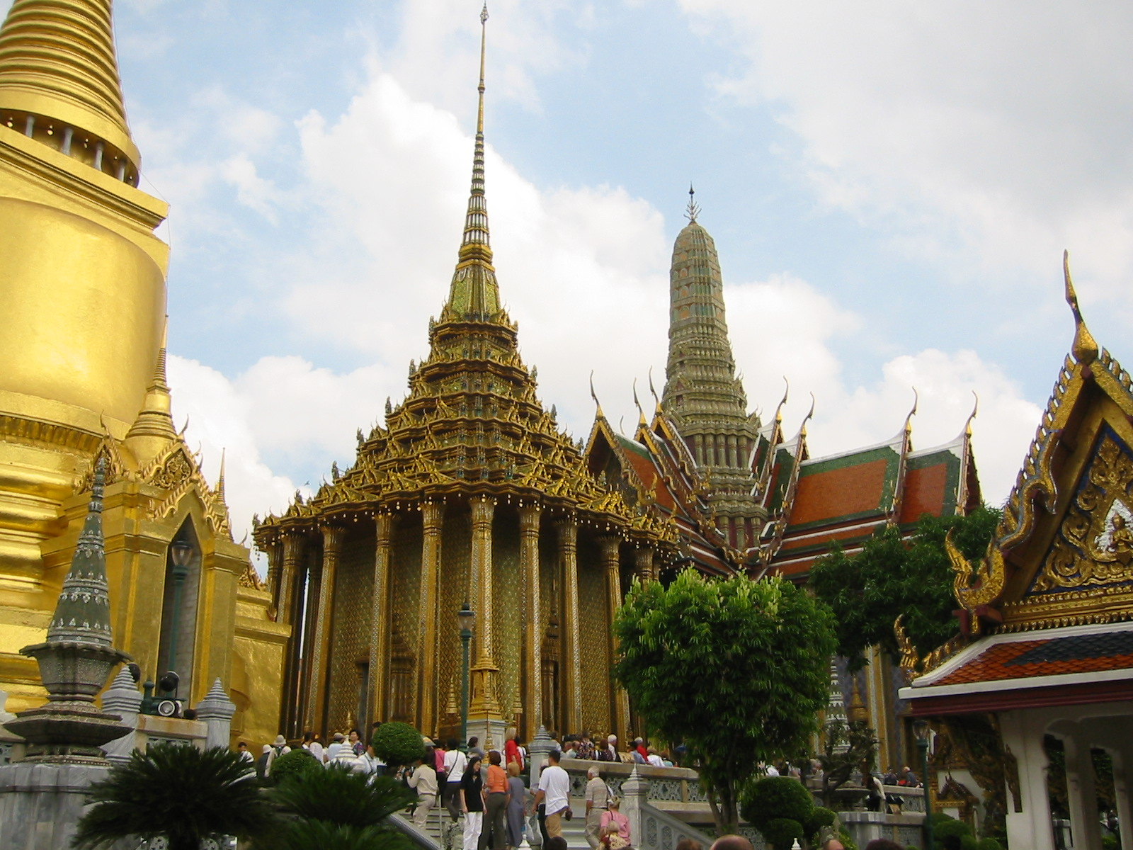 Grand Palace: The square building in the middle is the Phra Mondop, the library in the Wat Phra Kaeo, the Thai buddhist temple attatched to the Grand Palace in Bangkok. In the background is the Prasat Phra Thep Bidorn, the Royal Pantheon.